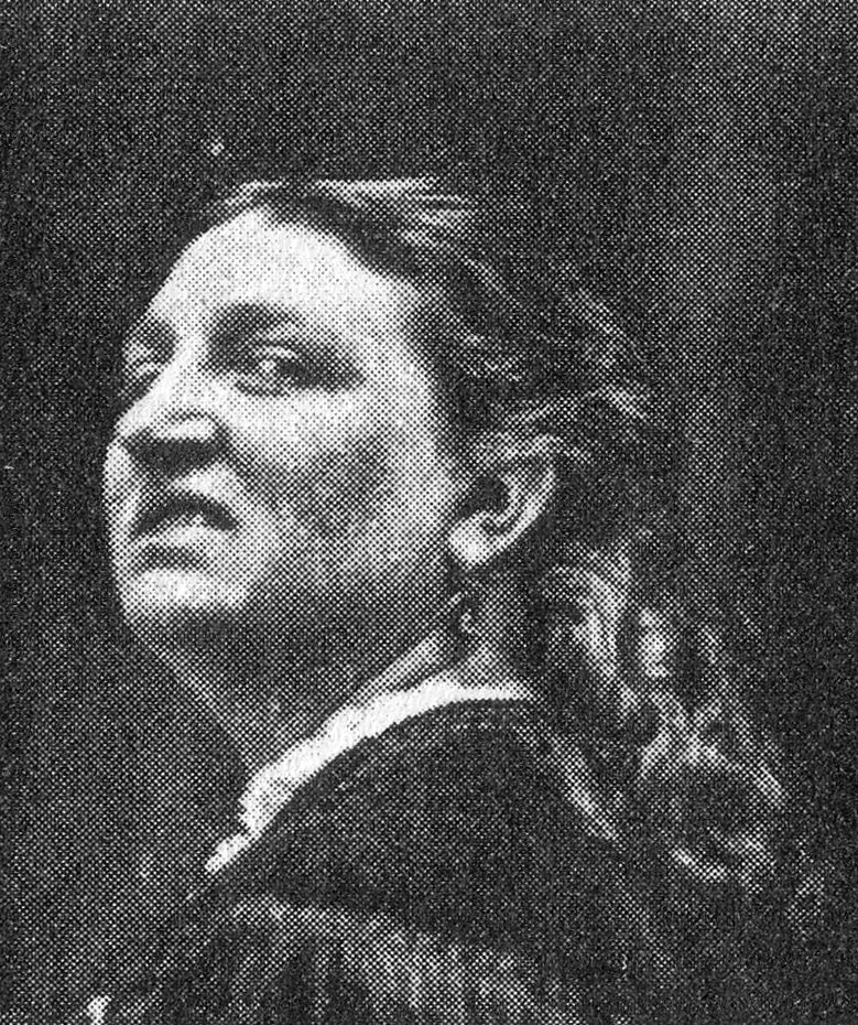 Image from plate IV of Charles Darwin's The Expression of the Emotions in Man and Animals. Model Mary Bull portrays a sneer.